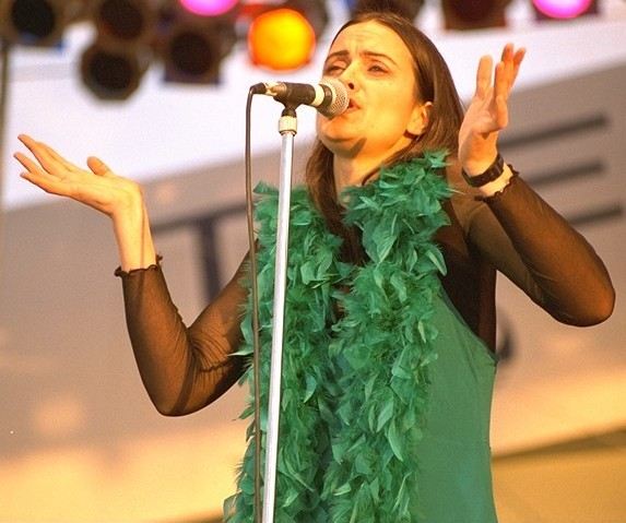 Corinne Drewery of Swing Out Sister performing at Bayfront Park in Miami Beach, FL